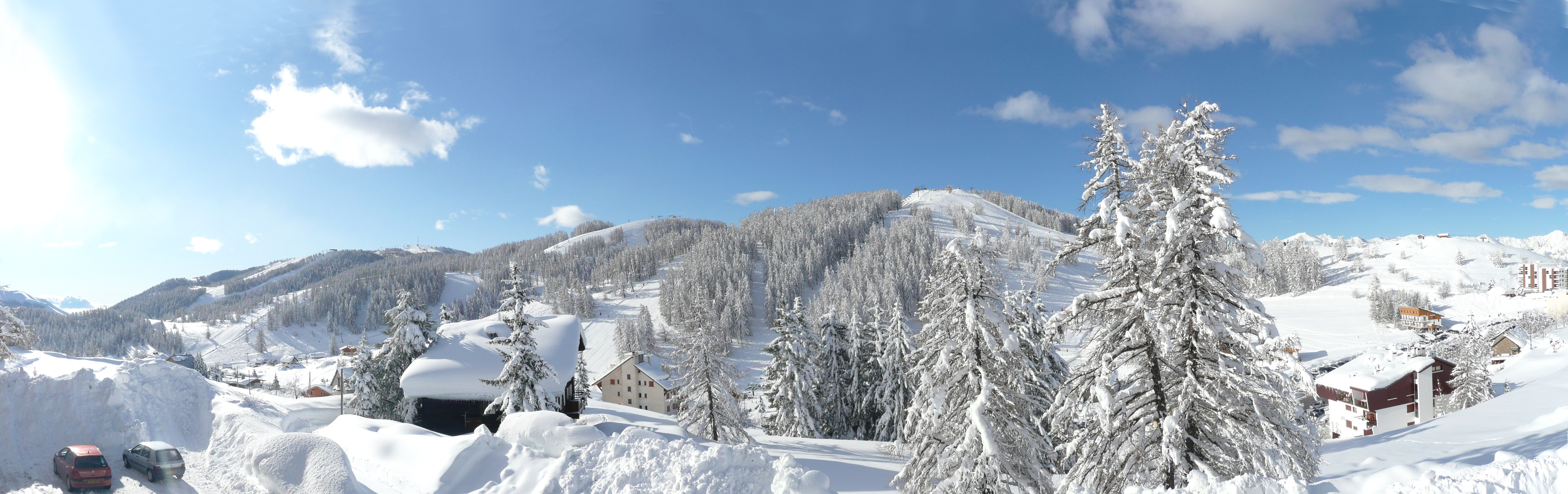 Panoramic view of The Valberg Ski Station in February 2009